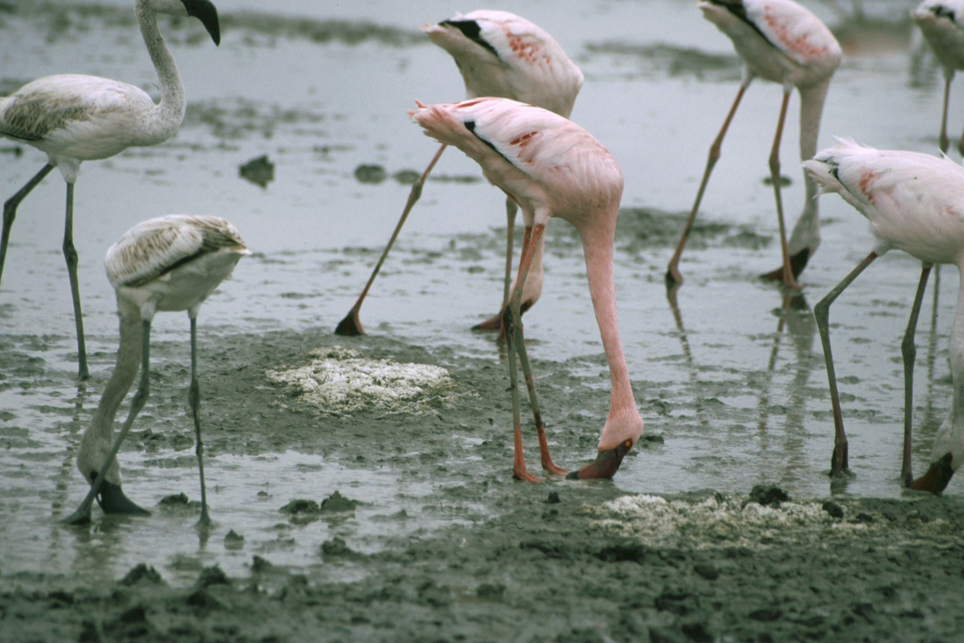 Lesser Flamingos Phoeniconaias minor feeding in mud. Taken on safari in Tanzania.